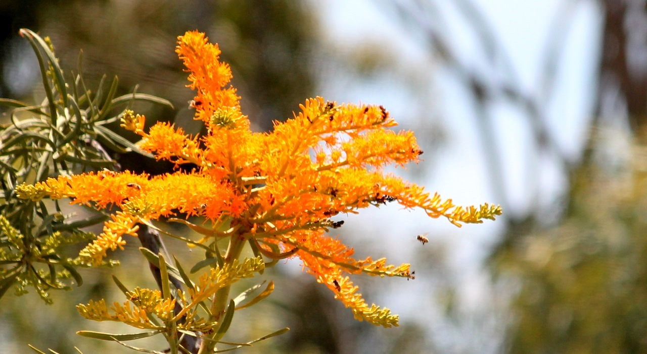 Western Australian Christmas Tree (Nuytsia floribunda) flower